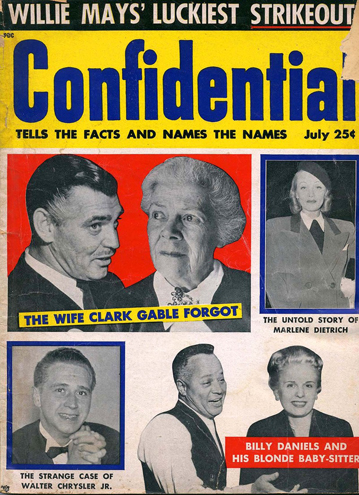 Confidential Magazine cover July 1957